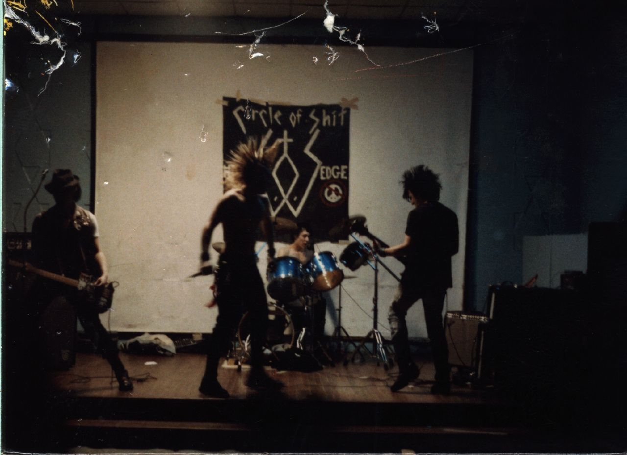 found_punk47